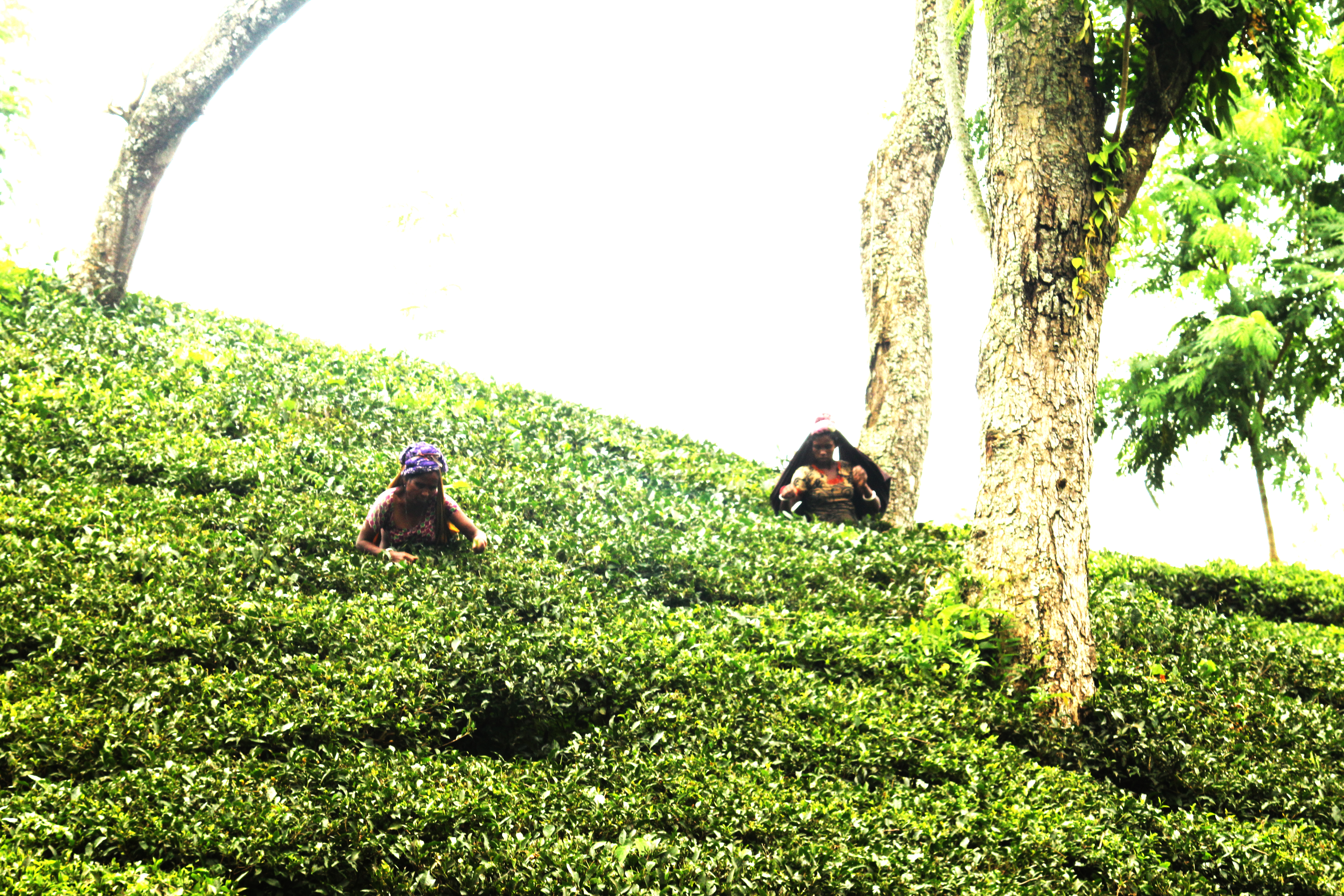 Tea Harvesting in Bangladesh